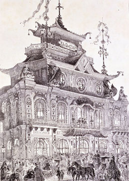 Ba-Ta-Clan opening